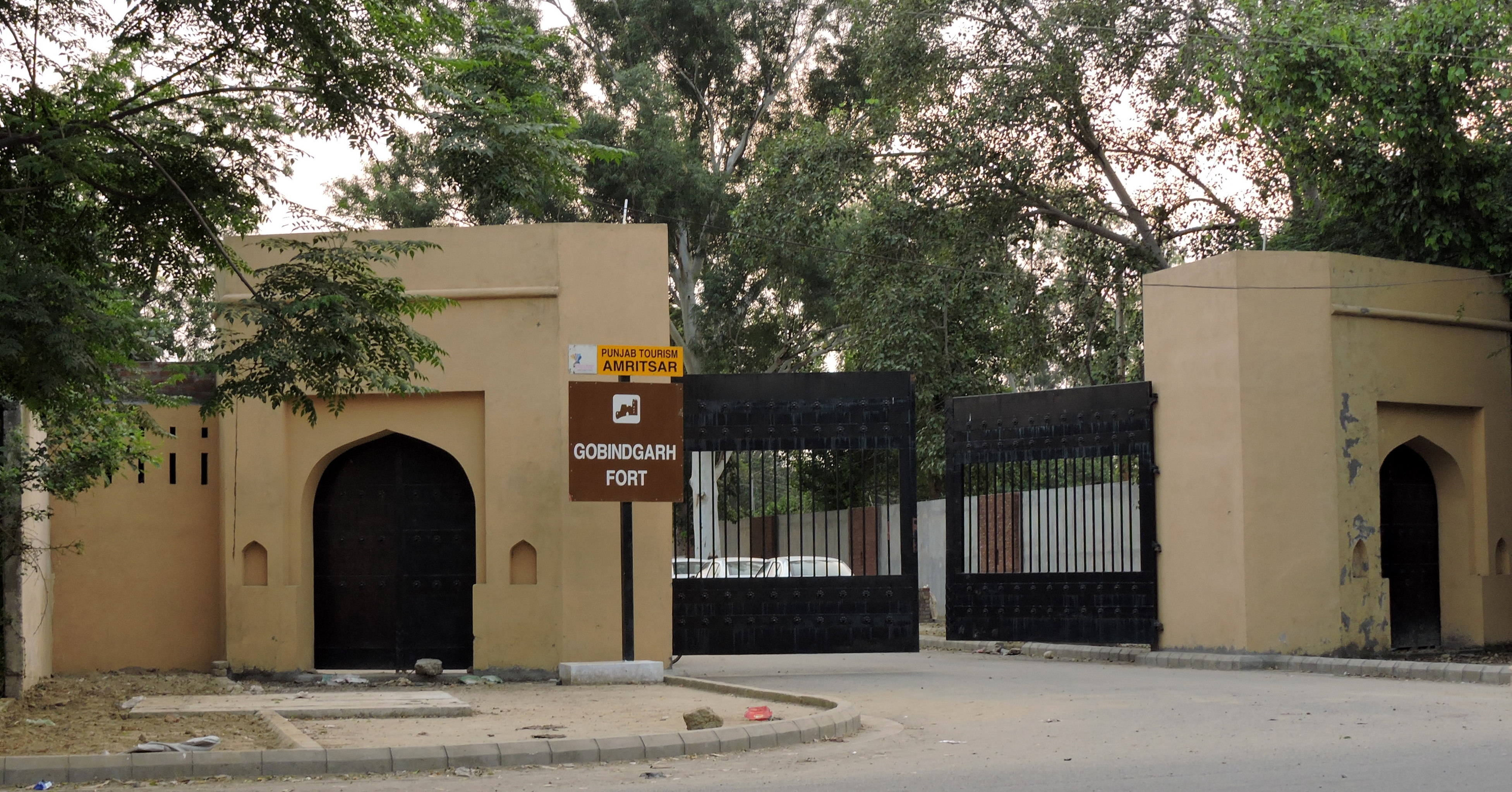 Entrance of Gobindgarh fort, Amritsar,Punjab